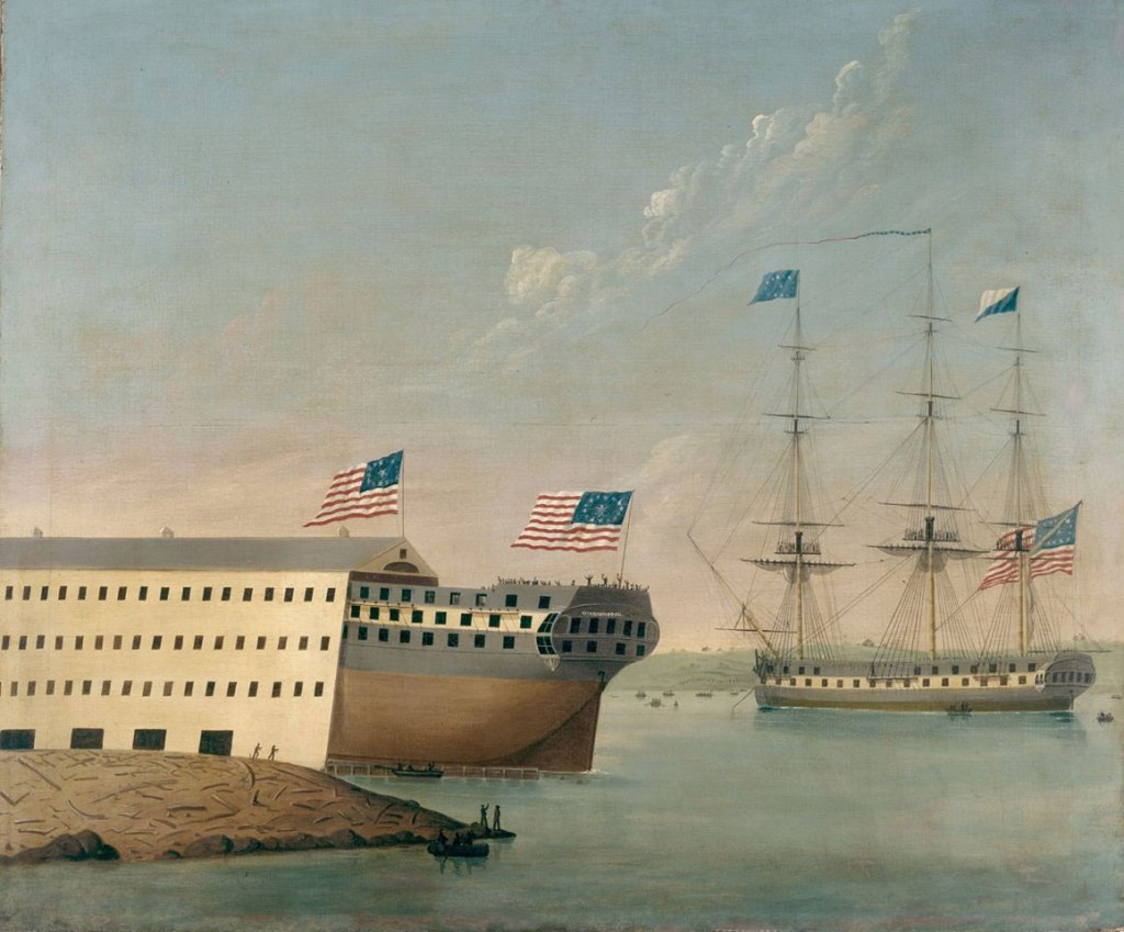 On Oct. 1, 1814, Portsmouth Naval Shipyard launched its first new construction, the 74-gun ship of the line USS Washington. Unidentified U.S. Navy ship in the background is the Congress.